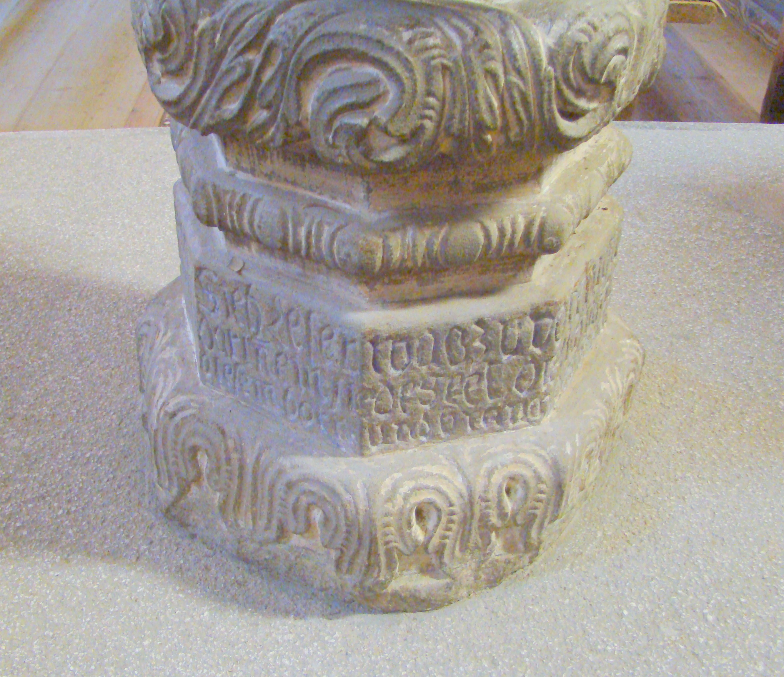 Fortified church in Vulcan, Brașov County, Romania